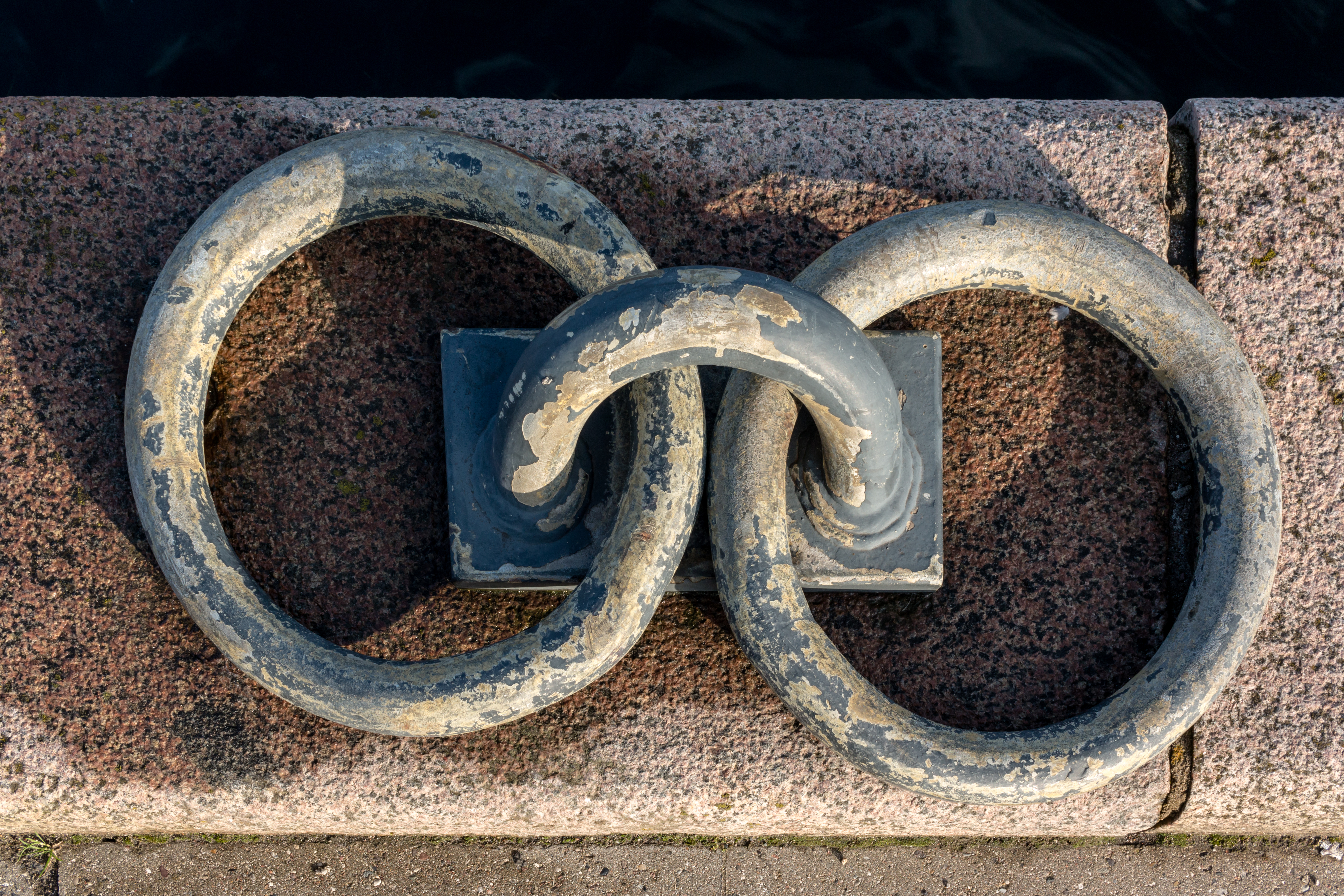 Mooring rings at the port, Copenhagen, Denmark